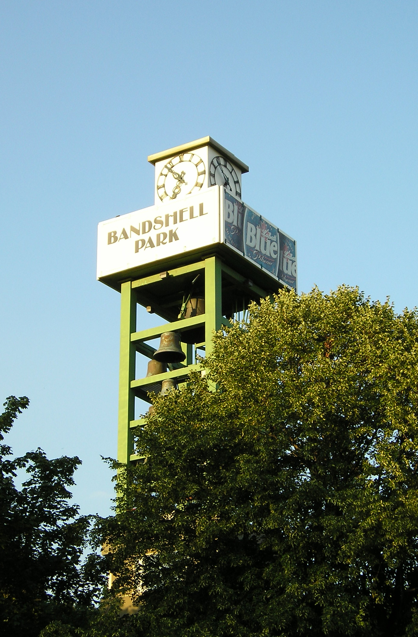 Picture of the carillon on the Canadian National Exhibition grounds. Shot September 1st 2005, during the 2005 CNE.